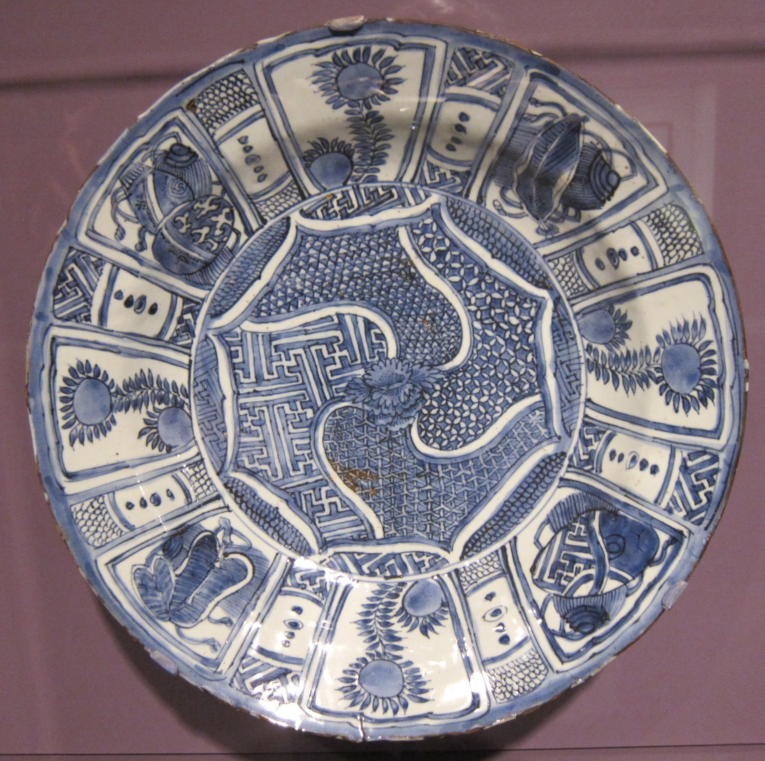 Porcelain dish from Jingdezhen, China, manufactured for export, Ming dynasty, Wanli period, c. 1753-1620, Honolulu Museum of Art accession 1911.1